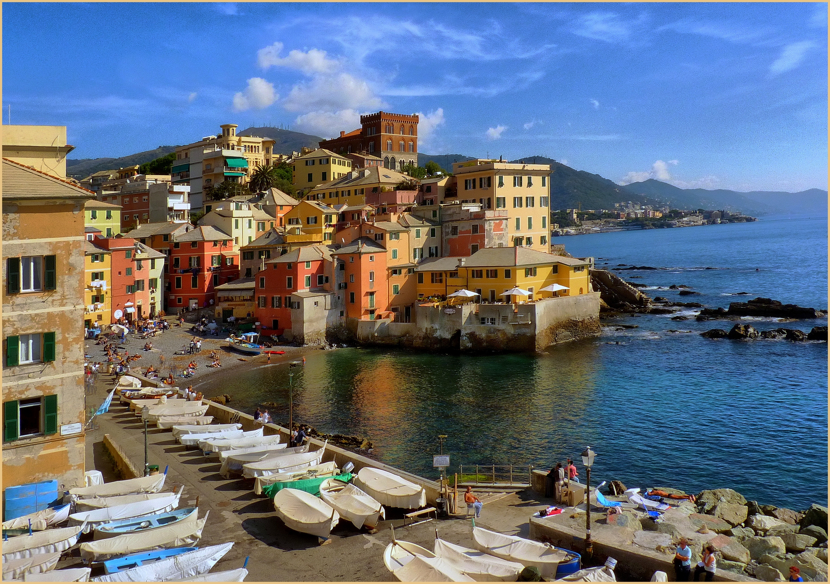 Boccadasse in the summer sun